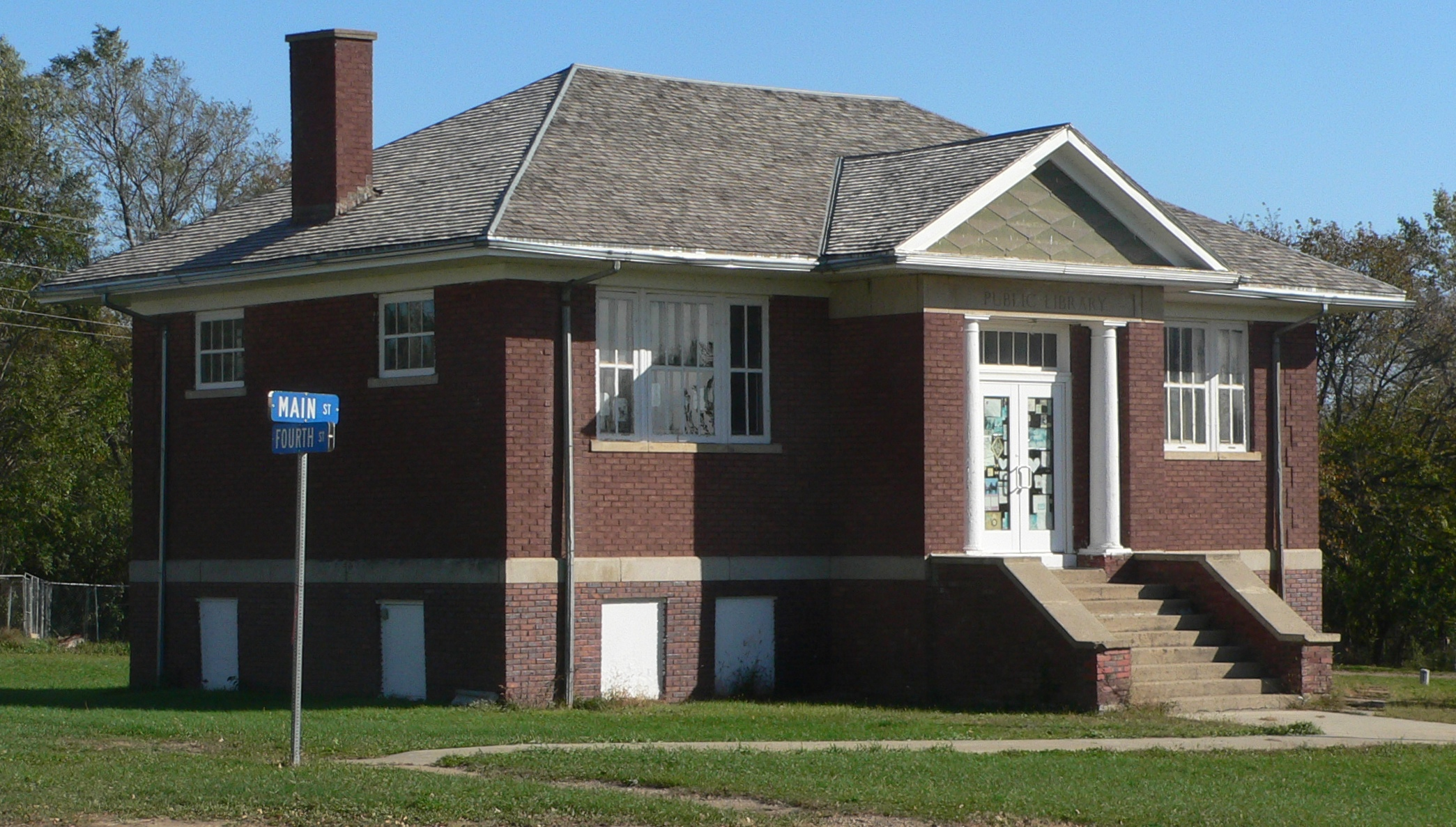 Carnegie library at southeast corner of 4th and Main Streets in Dallas, South Dakota; seen from the northwest.